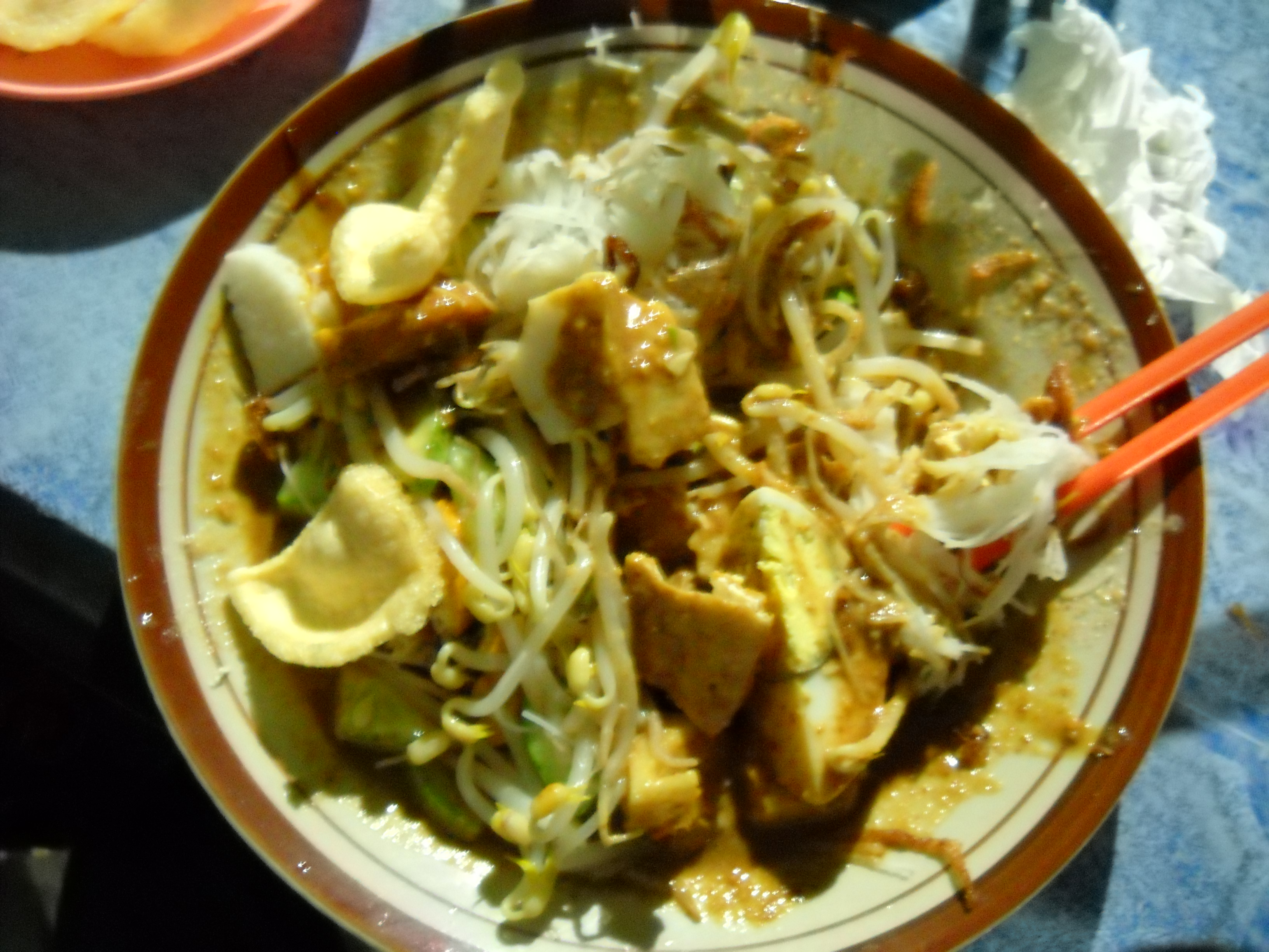 Ketoprak, Indonesian salad dishes with tofu, rice vermicelli, krupuk and peanut dressings